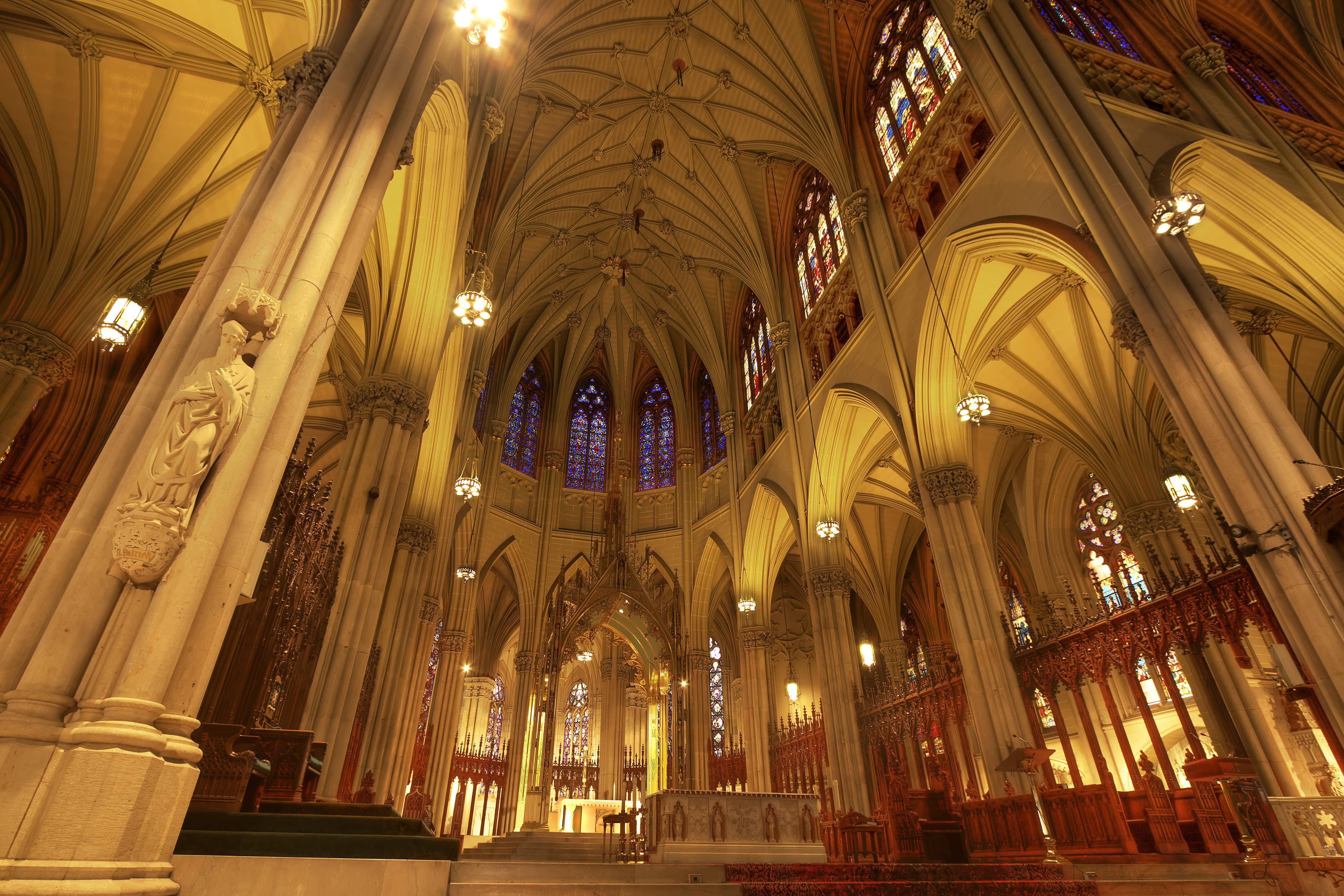 St. Patrick's Cathedral Complex